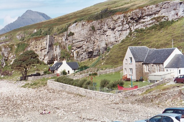 The school and the croft house, Elgol